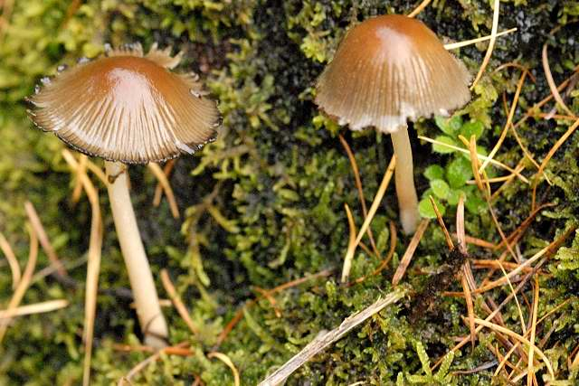 Psathyrella corrugis from Commanster, Belgian High Ardennes .